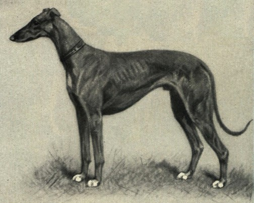 Greyhound